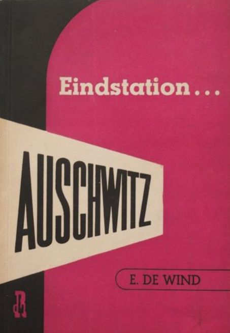 Cover of the first edition (1946) of E. de Wind: Eindstation (final station) Auschwitz